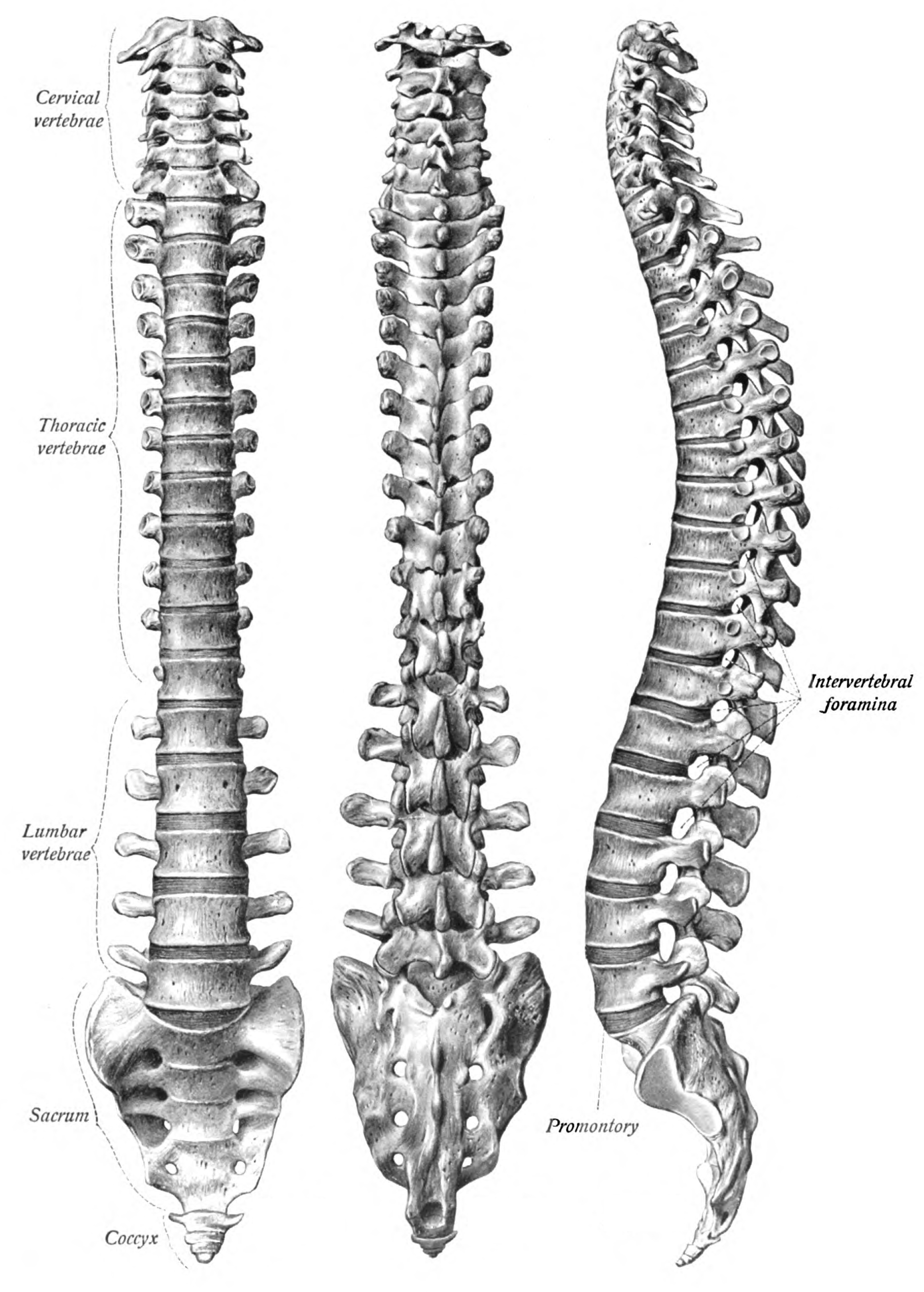 An anatomical illustration from Sobotta's Human Anatomy 1909